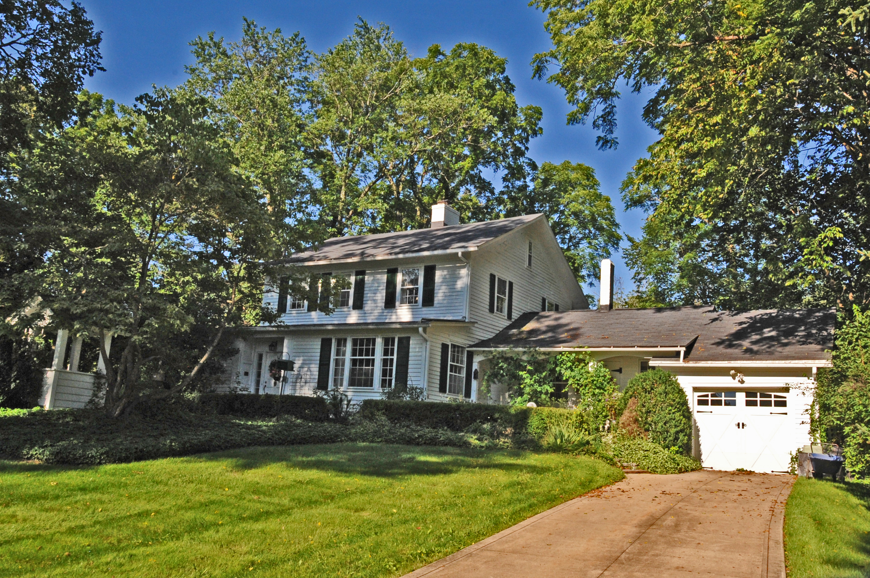 AKA OLD TANNERY FARM; HOME OF JOHN BROWN FROM 1818 TO 1826. HUDSON WAS A HOTBED OF ABOLITIONIST ACTIVITY 30 YEARS BEFORE THE CIVIL WAR. JOHN BROWN OCCUPATION AT ONE TIME WAS A TANNER